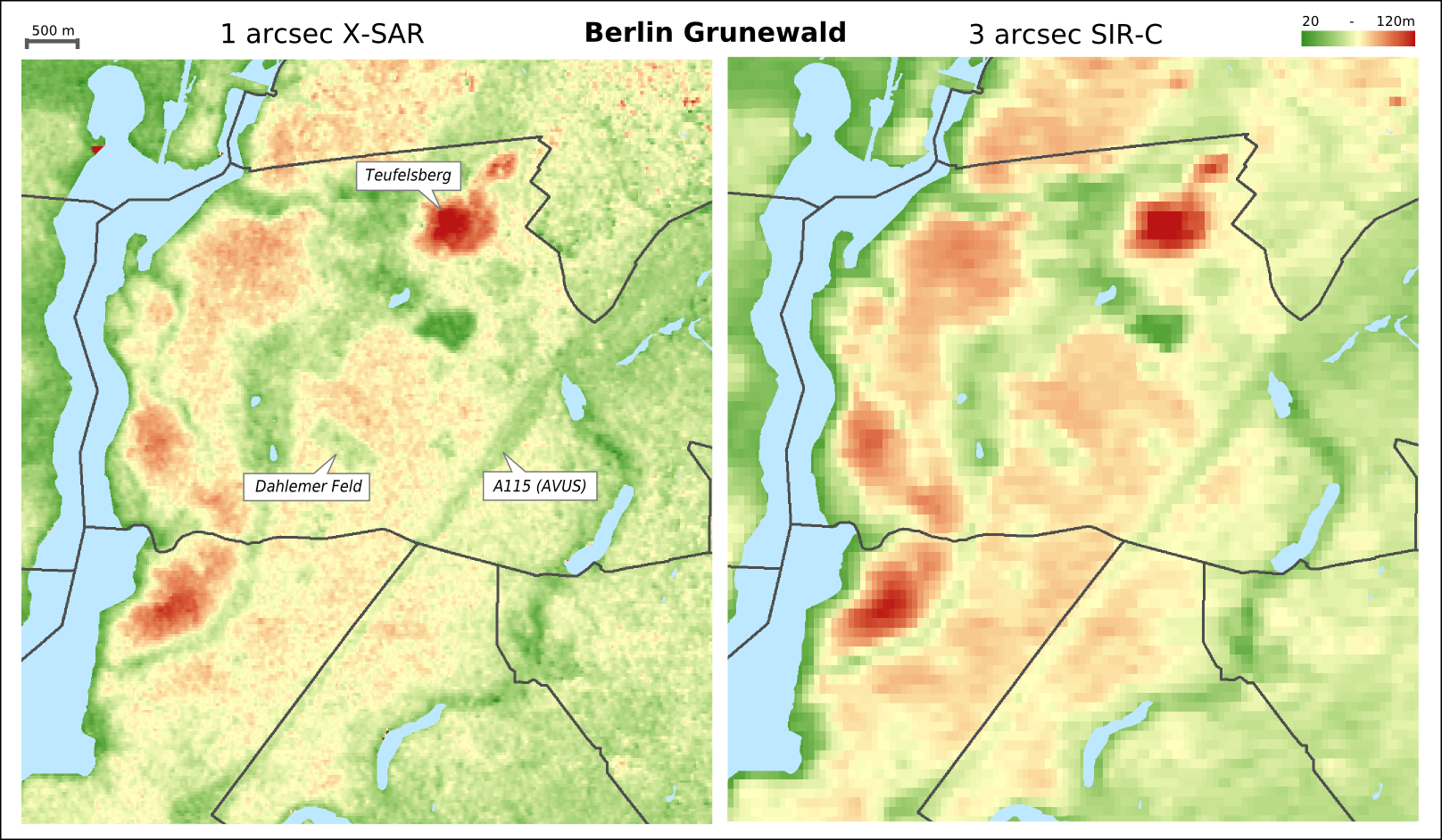 Comparison of SRTM X-SAR (left) and SIR-C (right)